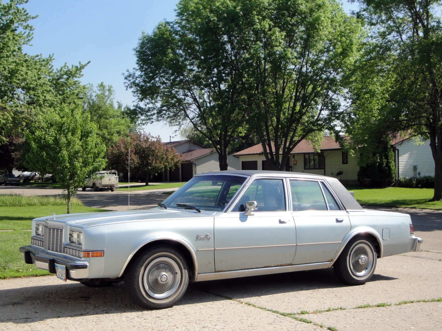 with Pontiac Wheel Covers